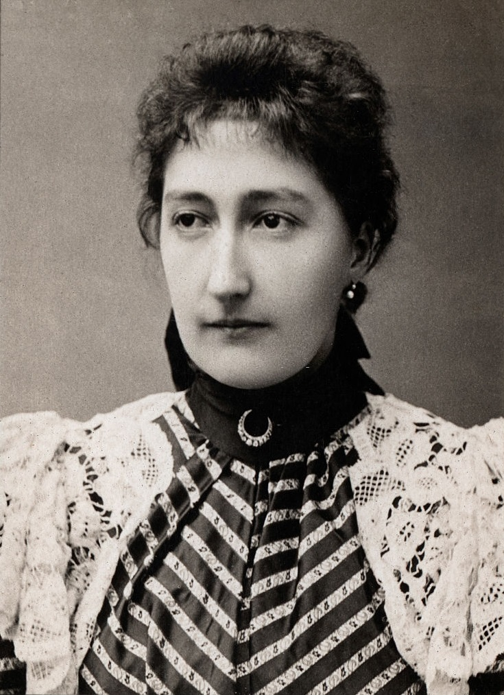 Portrait of Clémentine of Belgium (1872-1955)